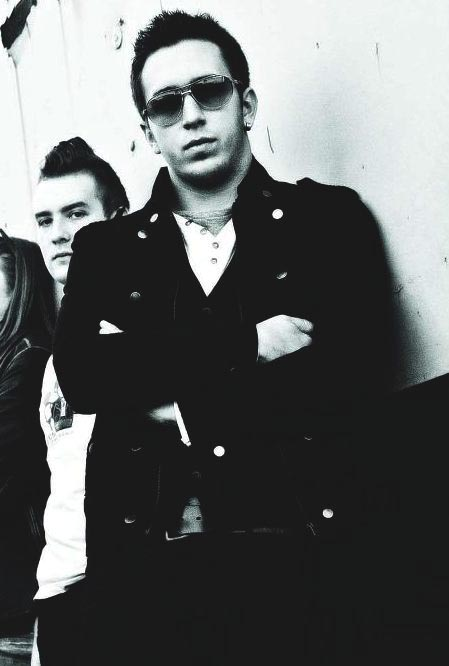 Cover photo of Jurajs first album "Neki drugi svijet", made and recorded with his band "Offduty", taken in Valpovo